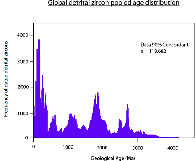 U-Pb dating